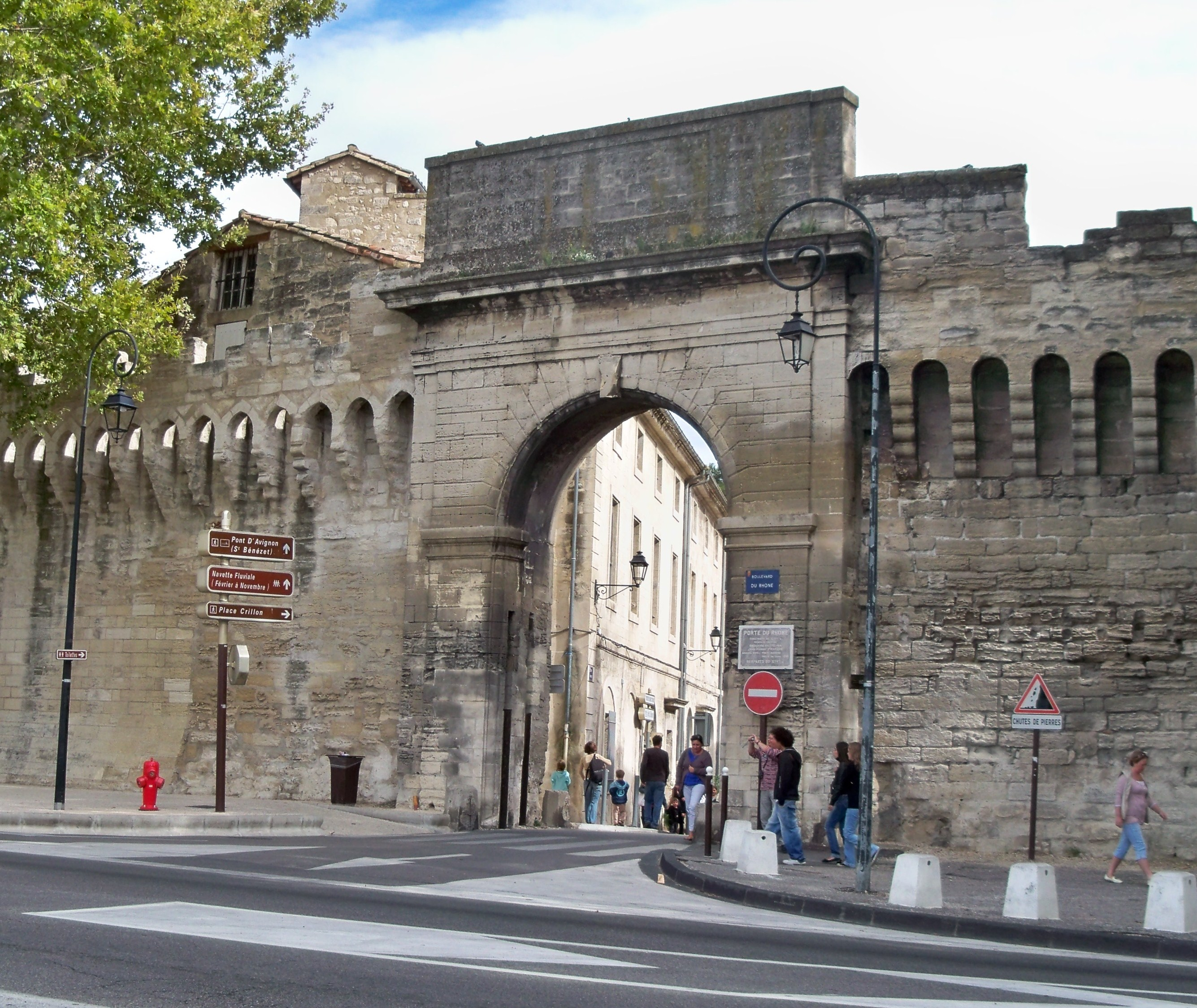 Rhône city door, Avignon, Vaucluse, France